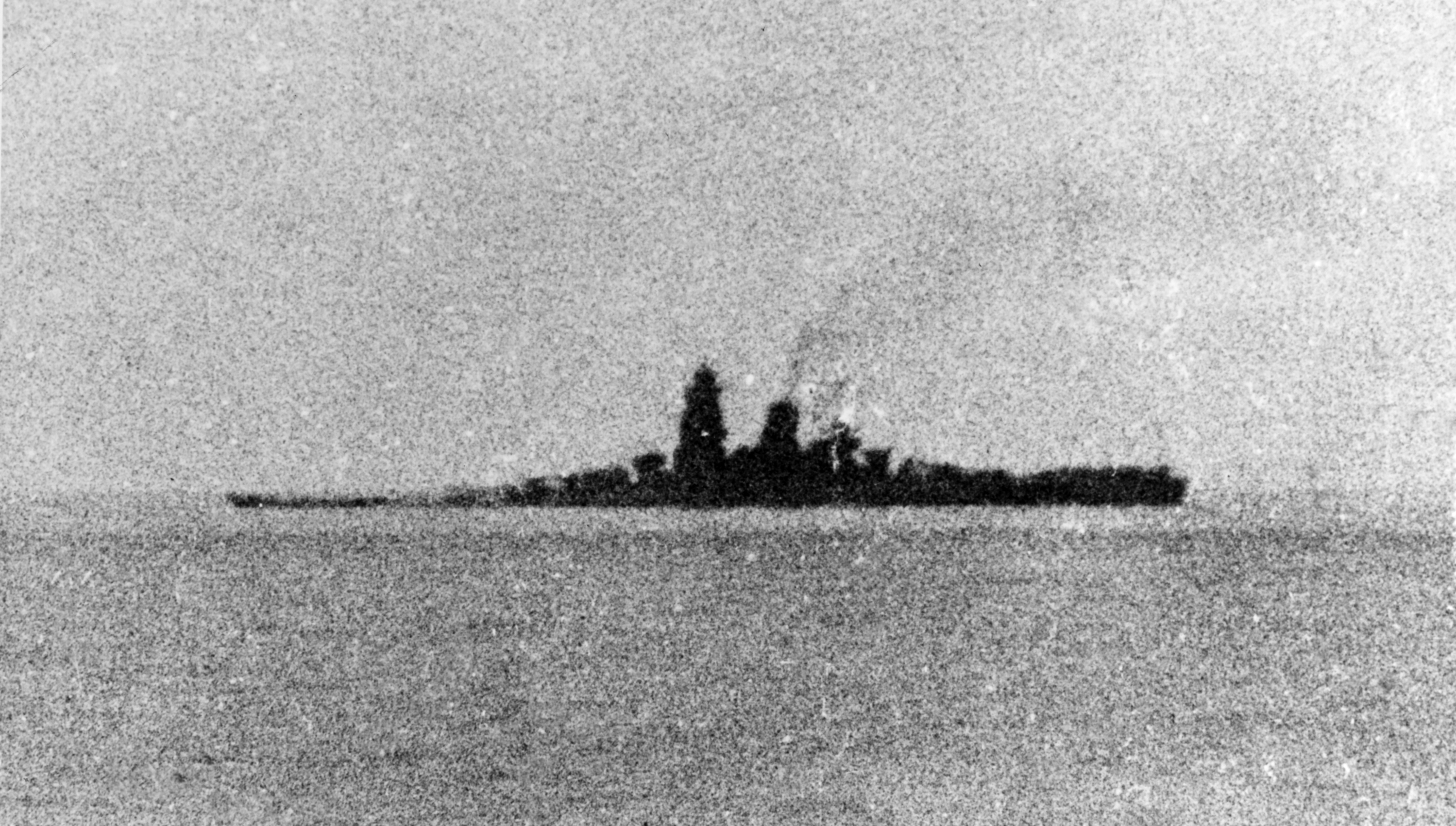 Battle of the Sibuyan Sea, 24 October 1944: The Japanese battleship Musashi down at the bow after being hit by U.S. Navy carrier aircraft. She had been struck by an estimated total of 19 torpedoes and 17 bombs.